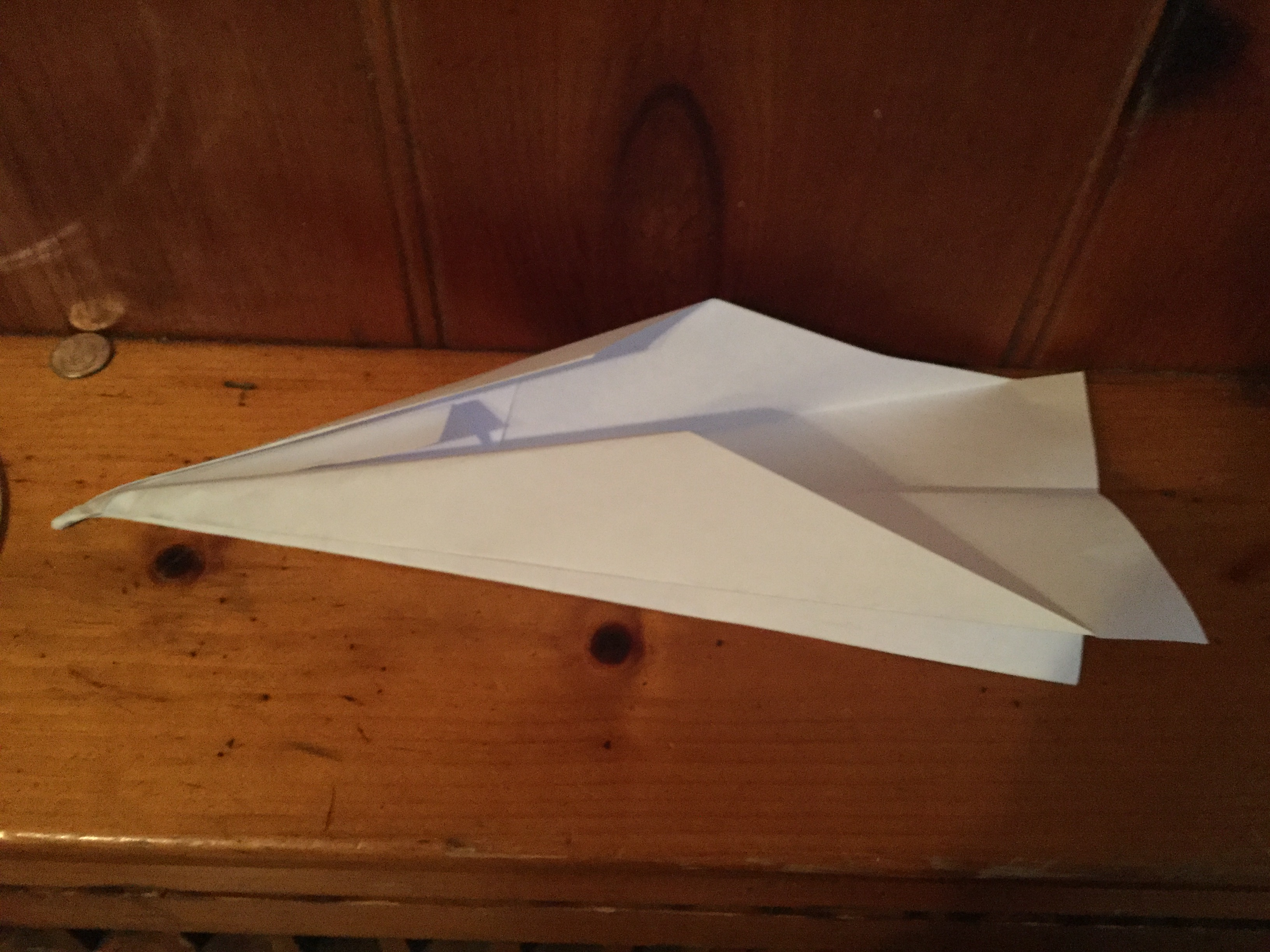 A paper airplane made with white paper.